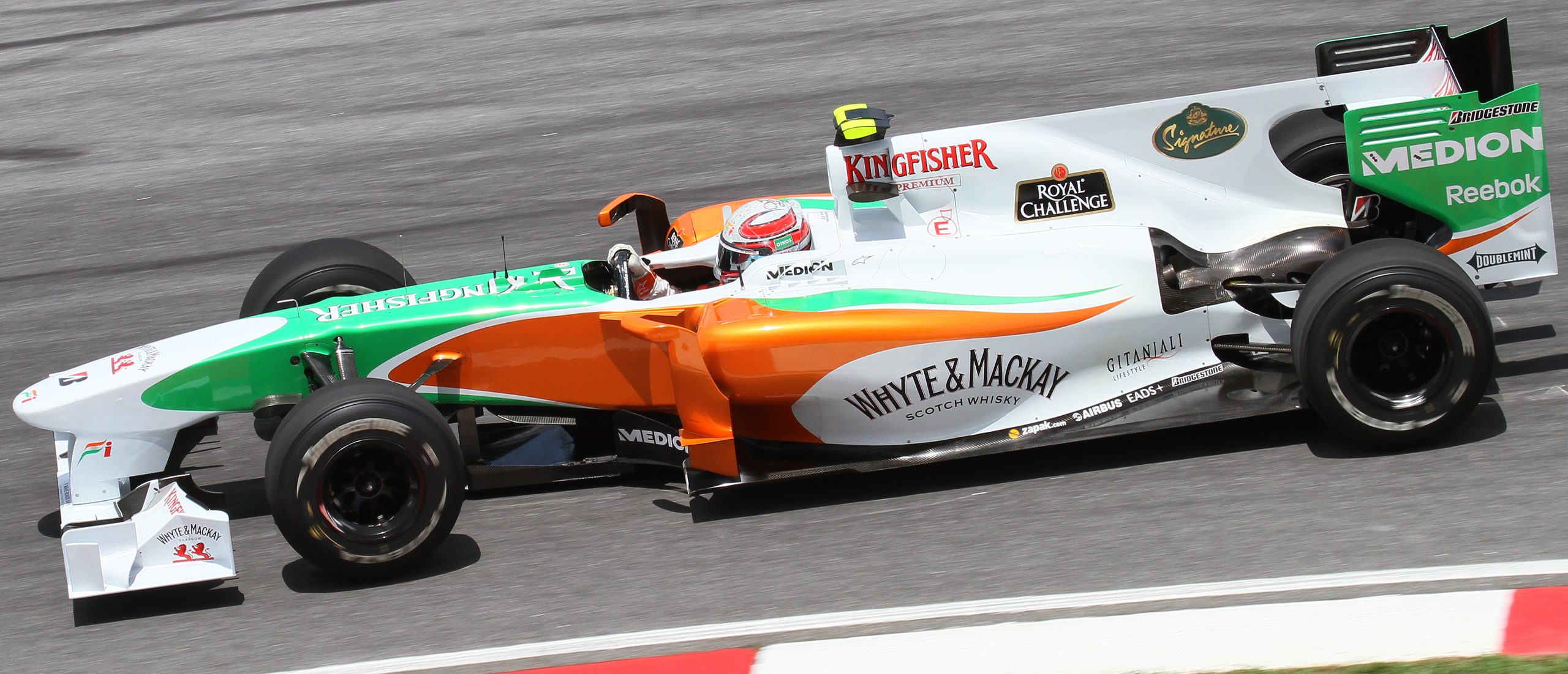 Formula One 2010 Rd.3 Malaysian GP: Vitantonio Liuzzi (Force India) during Friday 2nd Free Practice session.